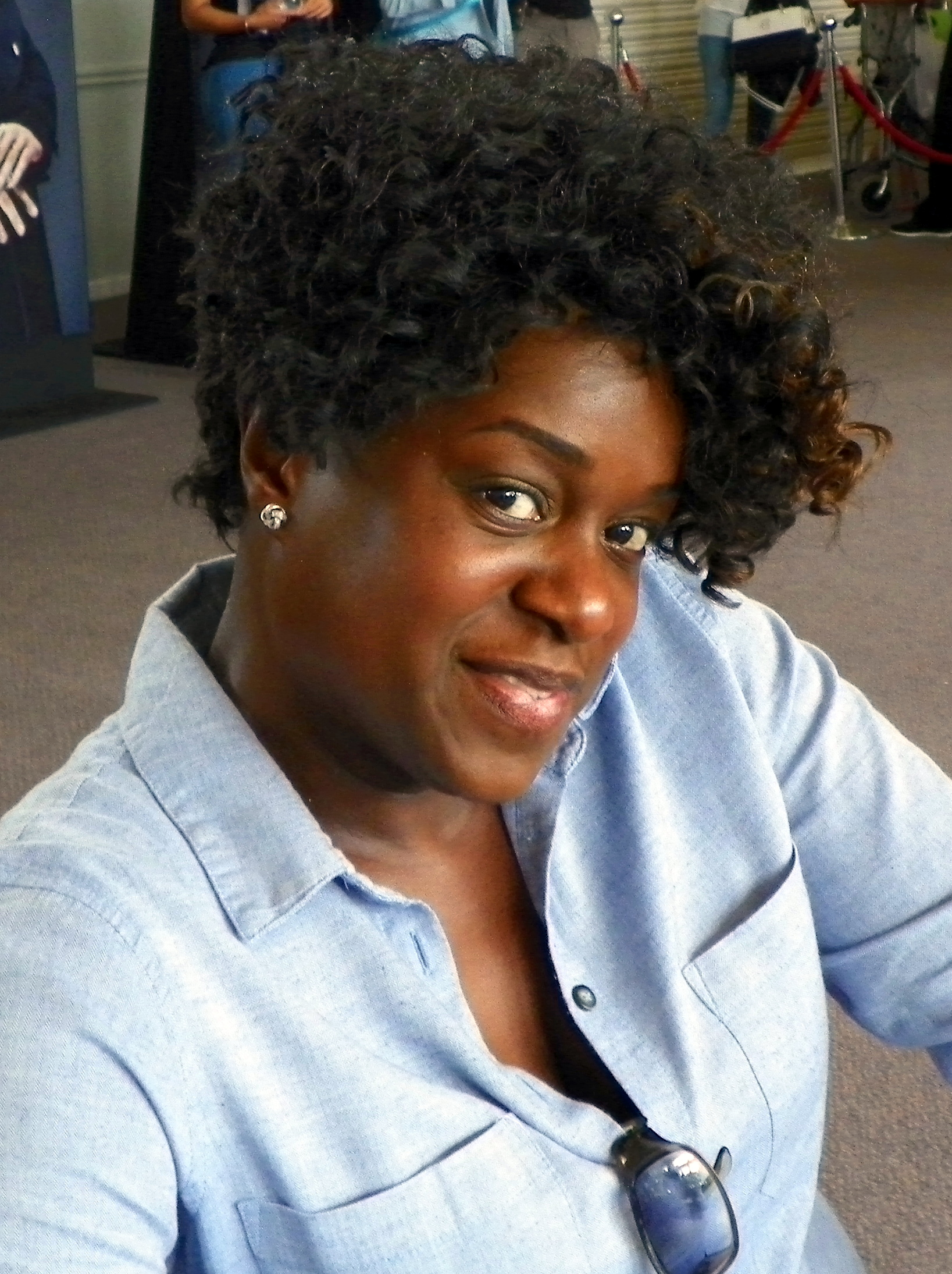 Actress Tameka Empson at the EastEnders Meet and Greet event at BBC Elstree Centre.